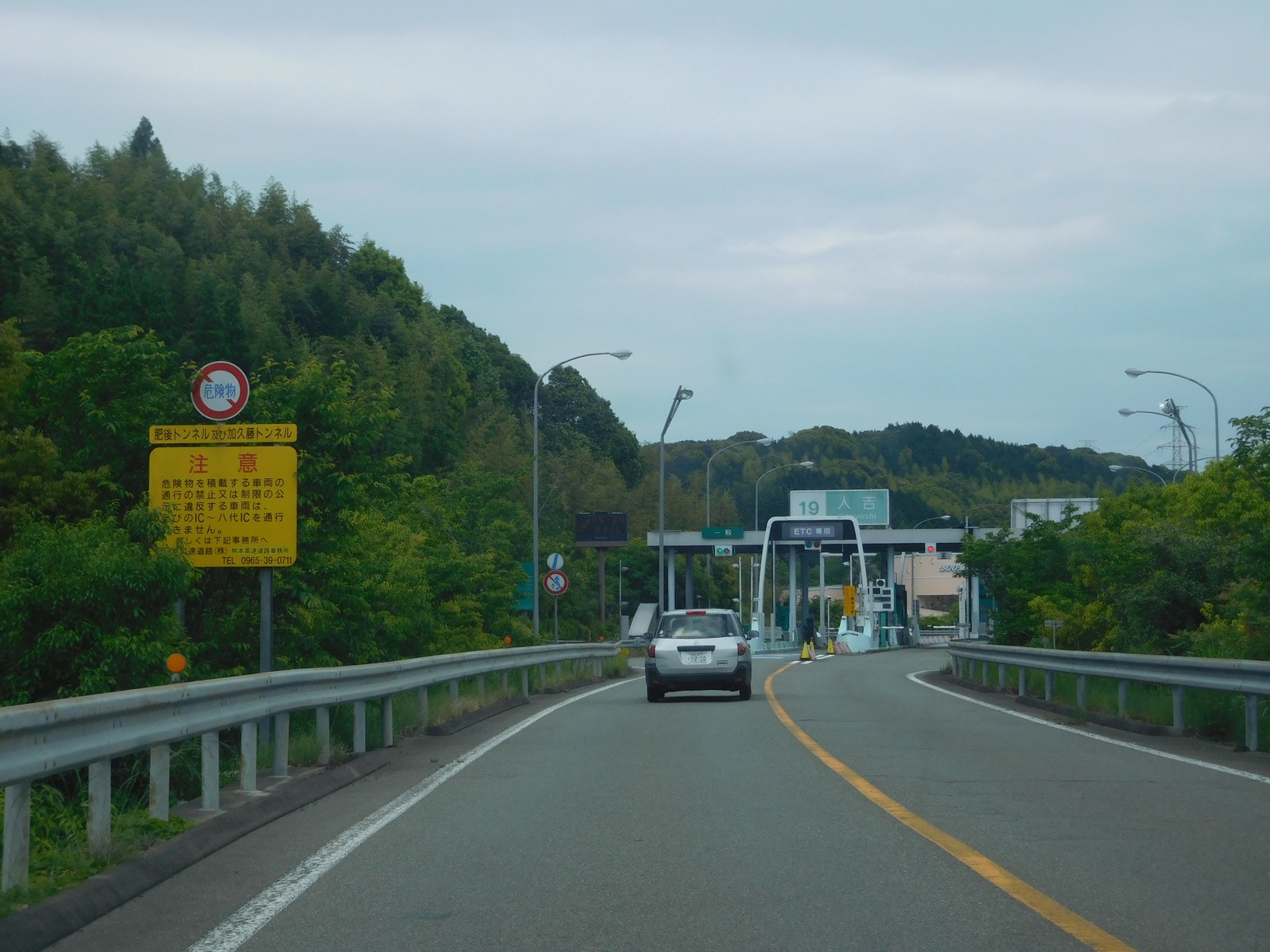 The Toll Plaza at Hitoyoshi Interchange of Kyushu Expressway in Hitoyoshi City, Kumamoto Prefecture, Japan.